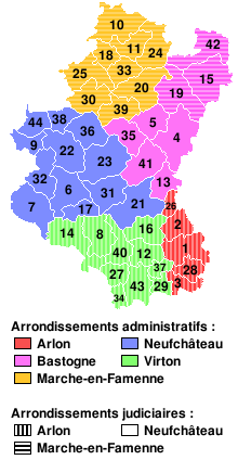 Province of Luxembourg (Belgium) composite map showing arrondissements (districts) and numbered municipalities. French legend.